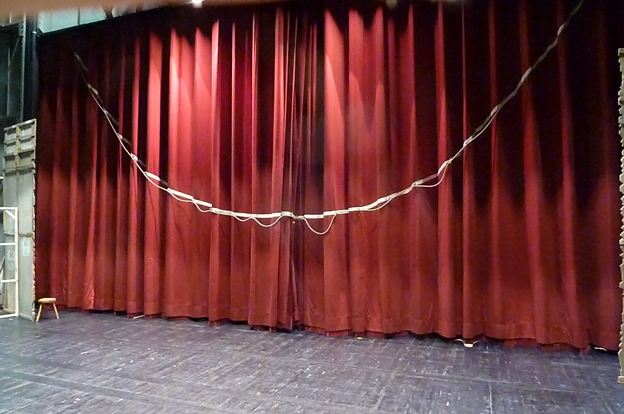 Front Tableau curtain from inside of the scene. Grand théâtre d'Angers, Maine-et-Loire, Pays de la Loire, France.